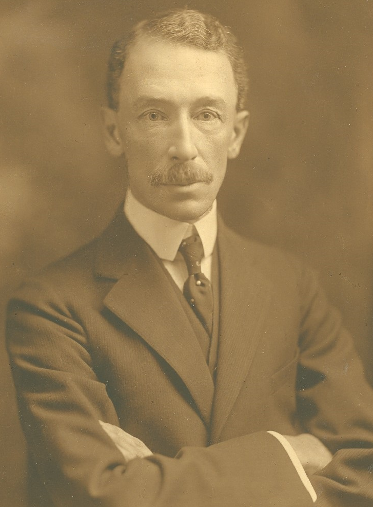 Louis-Alexandre Taschereau